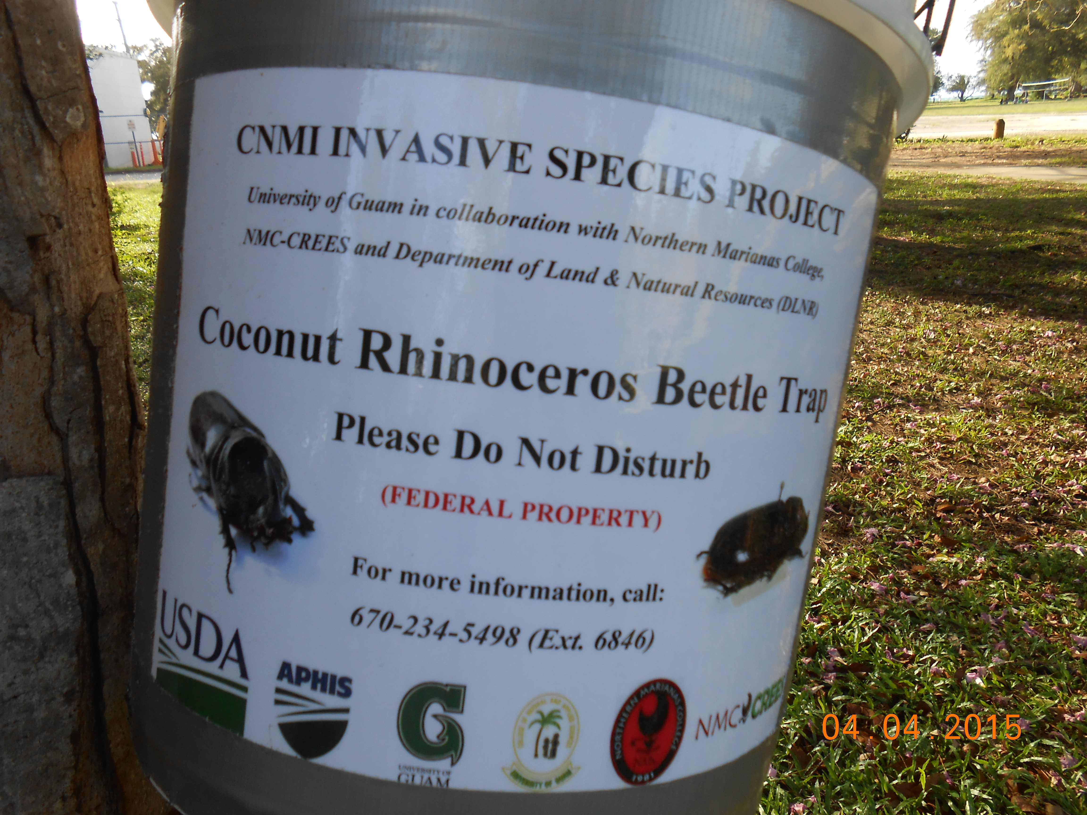 As described on the image.